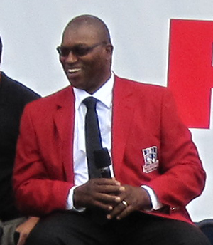 Sam "Bam" Cunningham is inducted into the Patriots Hall of Fame